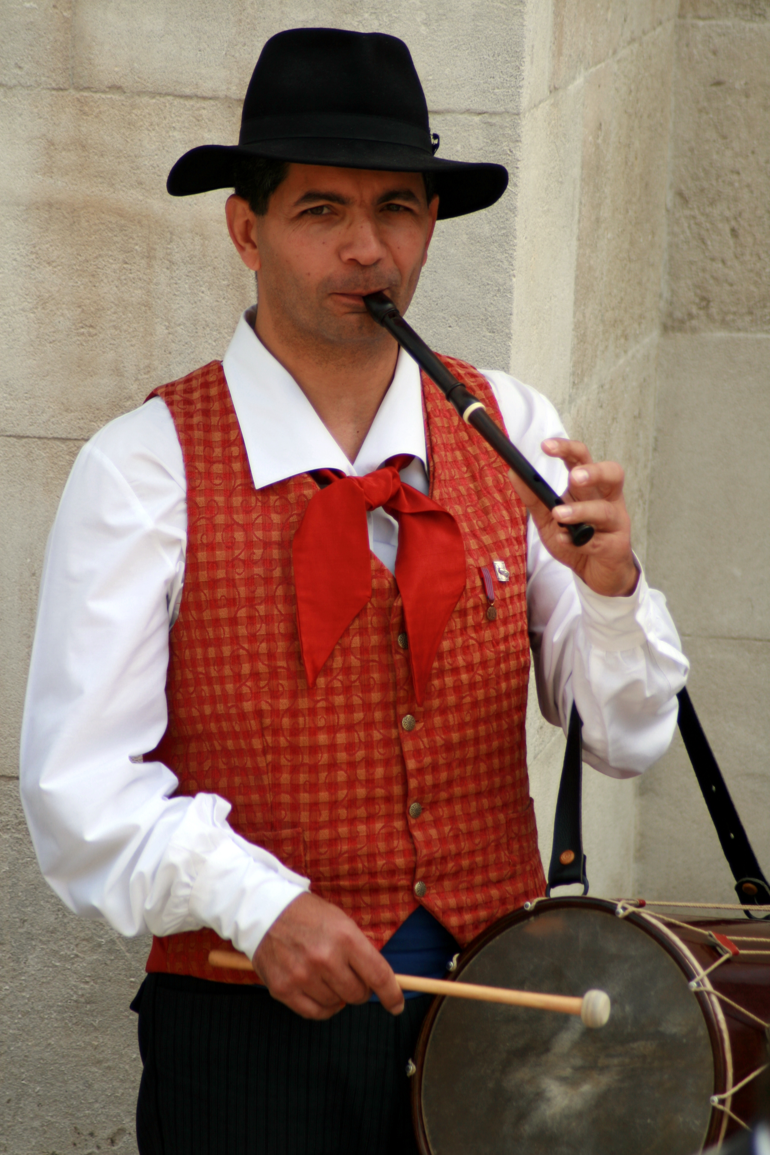 Musician of Provence